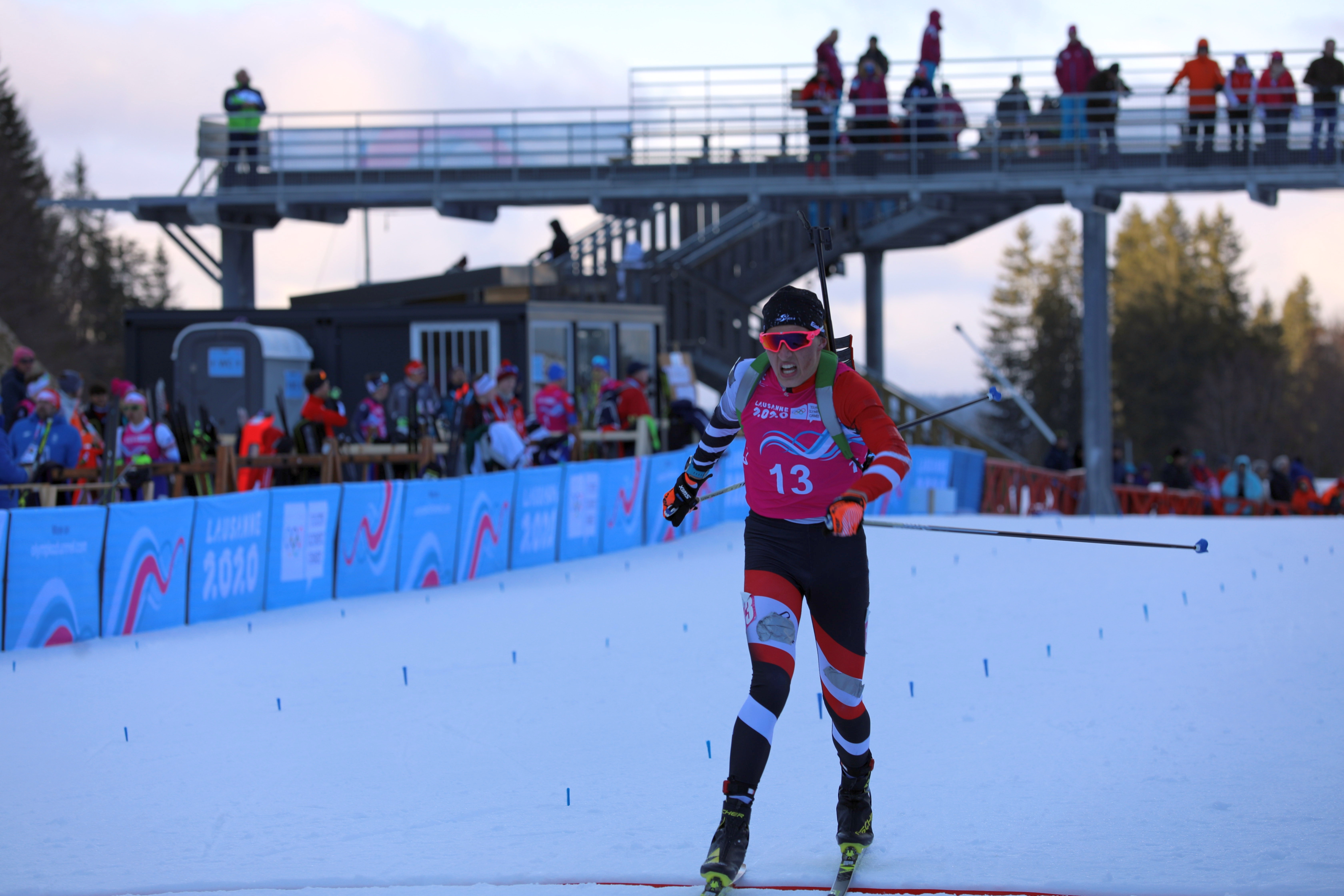 Biathlon at the 2020 Winter Youth Olympics in Lausanne at 11 January 2020 – Individual men